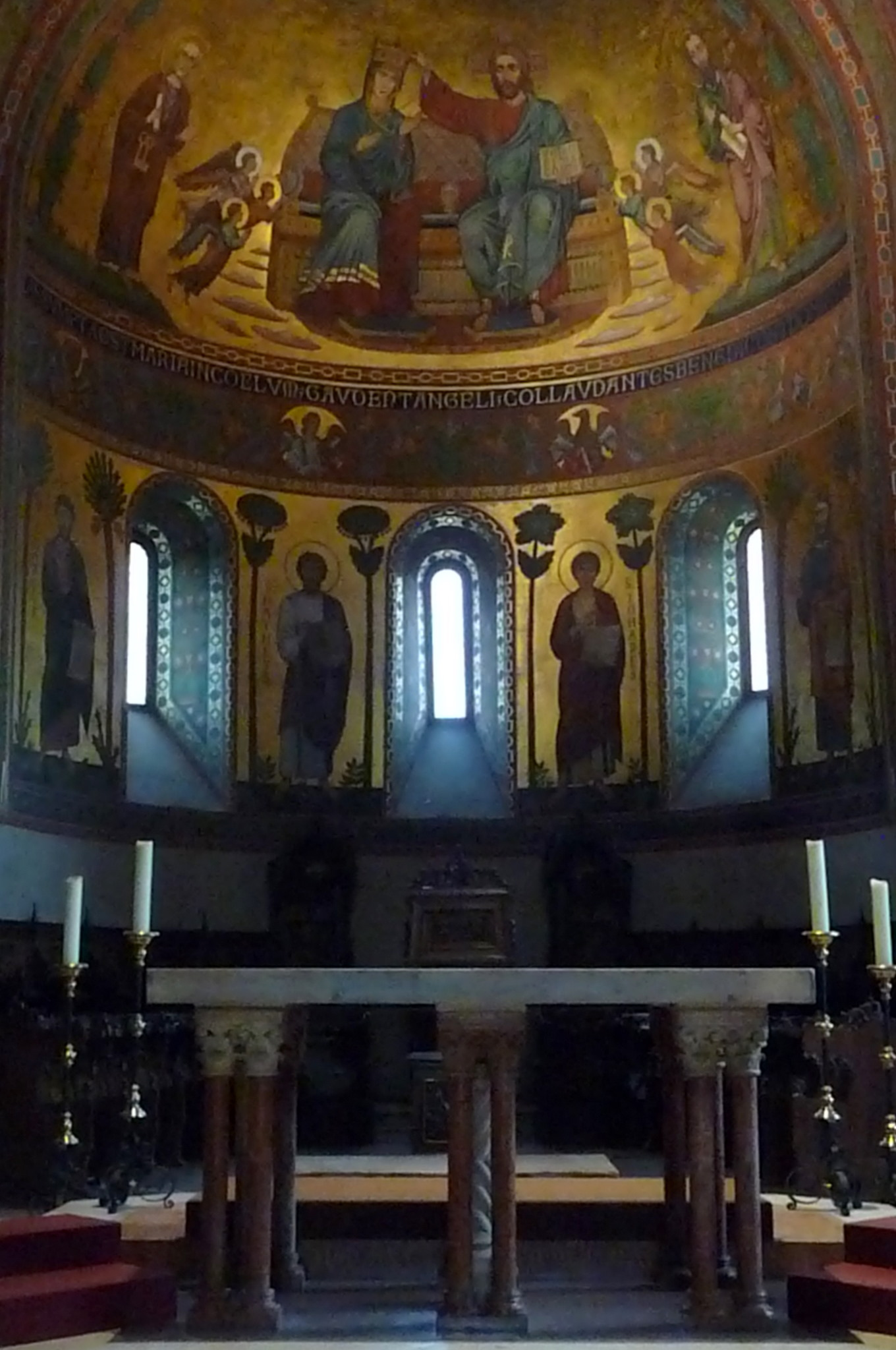 Apsis of the cathedral in Modena,Italy